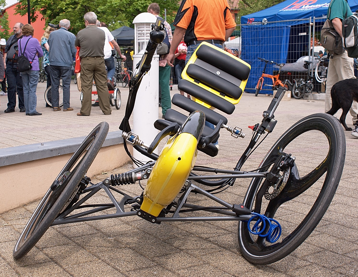 Tripendo recumbent tricycle, shown in almost fully tilted position.